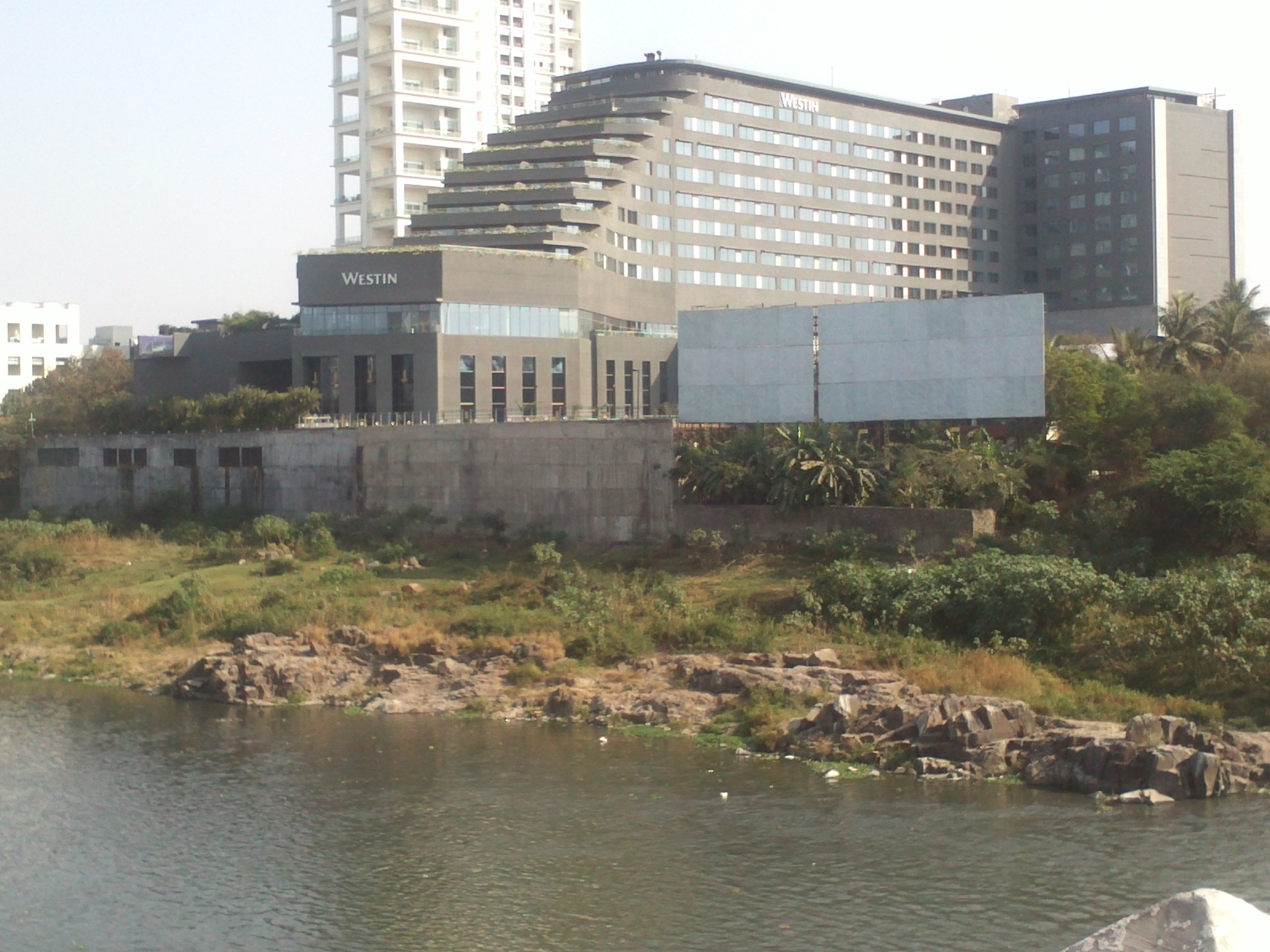 Westin Hotel, Koregaon Park, Pune